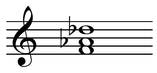 Naepolitan chord